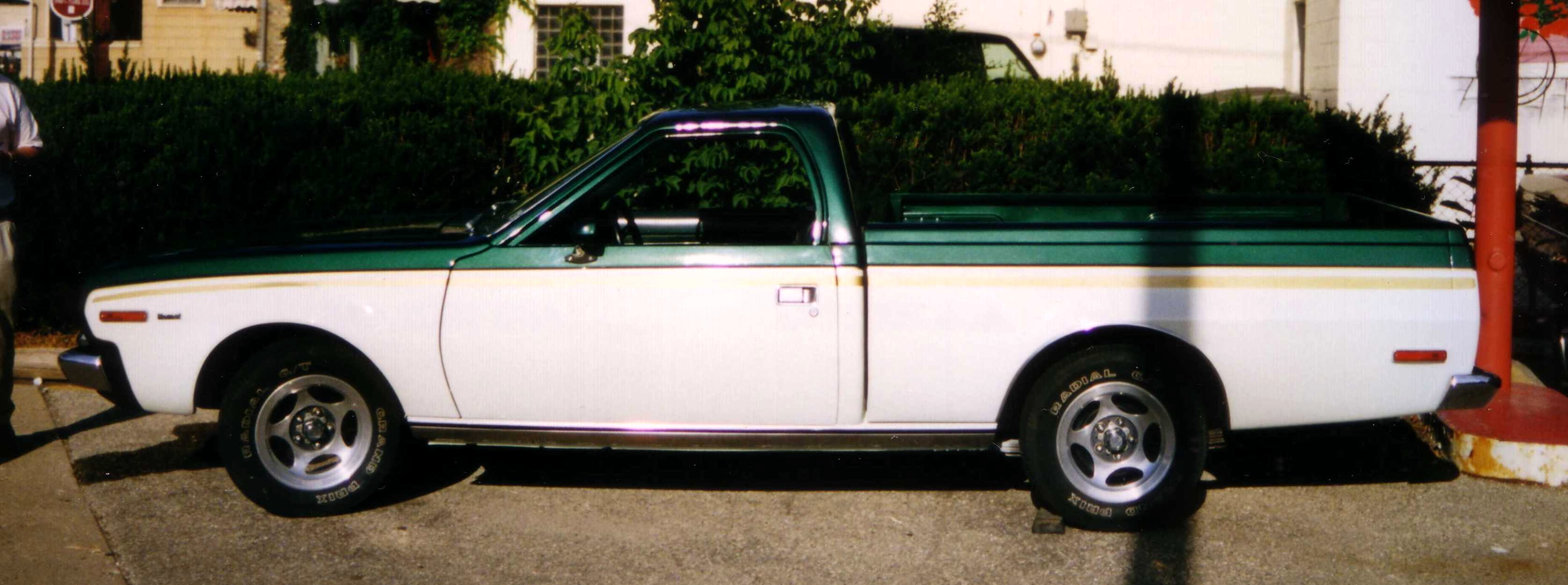 AMC Cowboy, a compact pickup truck concept vehicle built using a Hornet automobile platform by American Motors Corporation. Left side view taken during various events that were part of the 100th Anniversary Rambler (1902-2002) July 22 - July 27, 2002, meet held in Kenosha, Wisconsin.